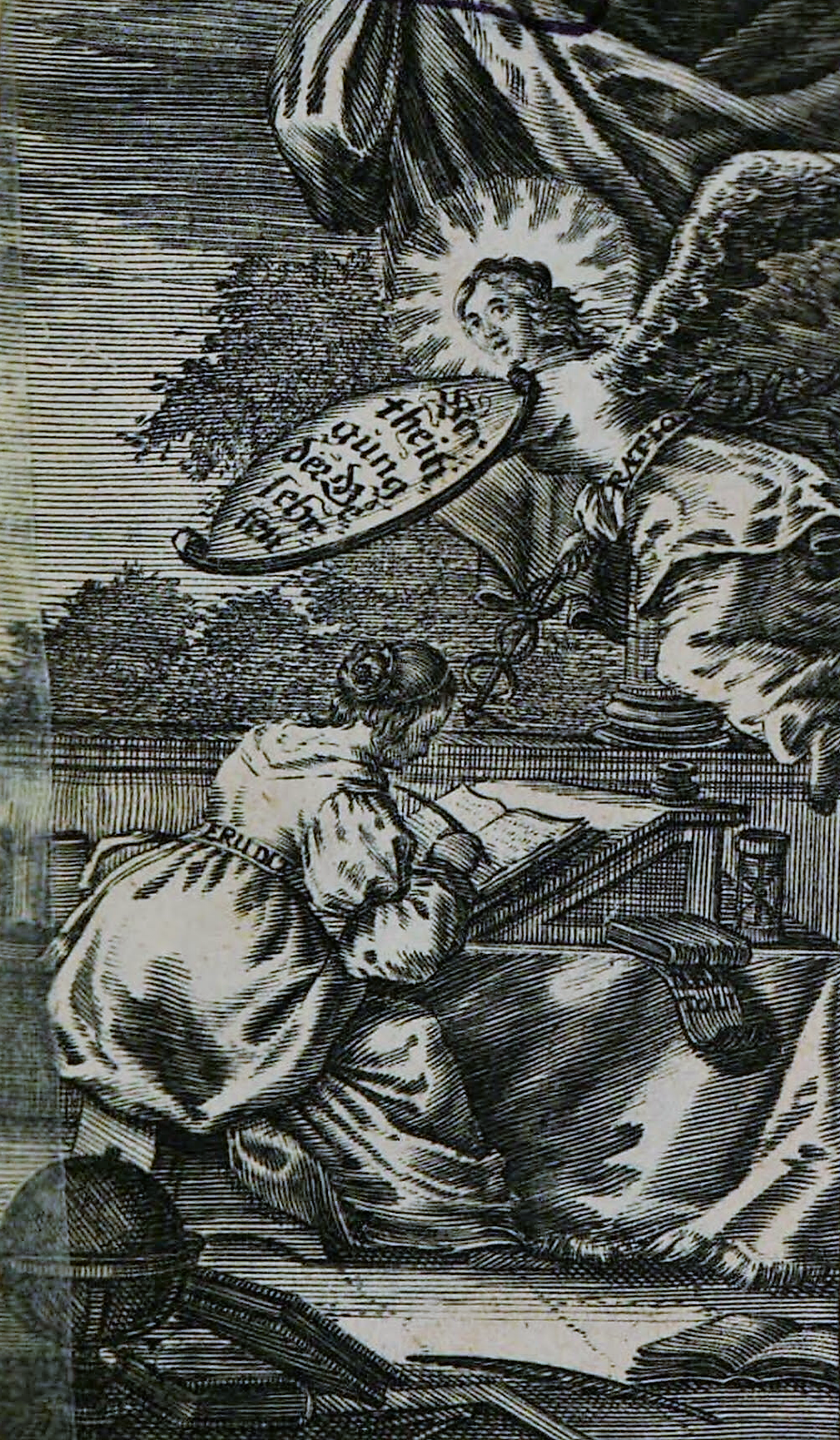 Titke frontispiece